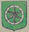 Coat of Arms Keller-Cellarius